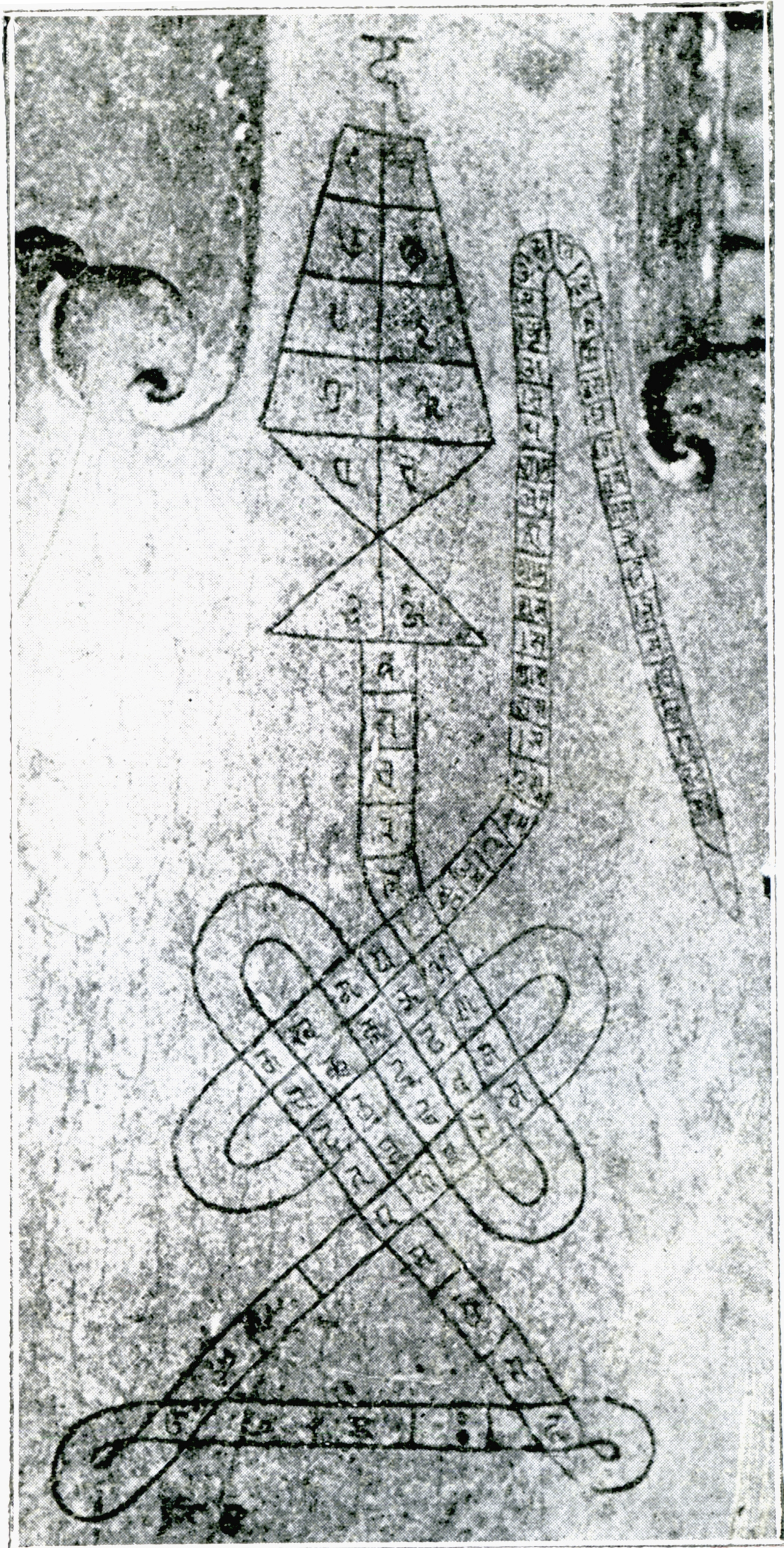 Rubbing of the serpentine inscription at Dhar in central India